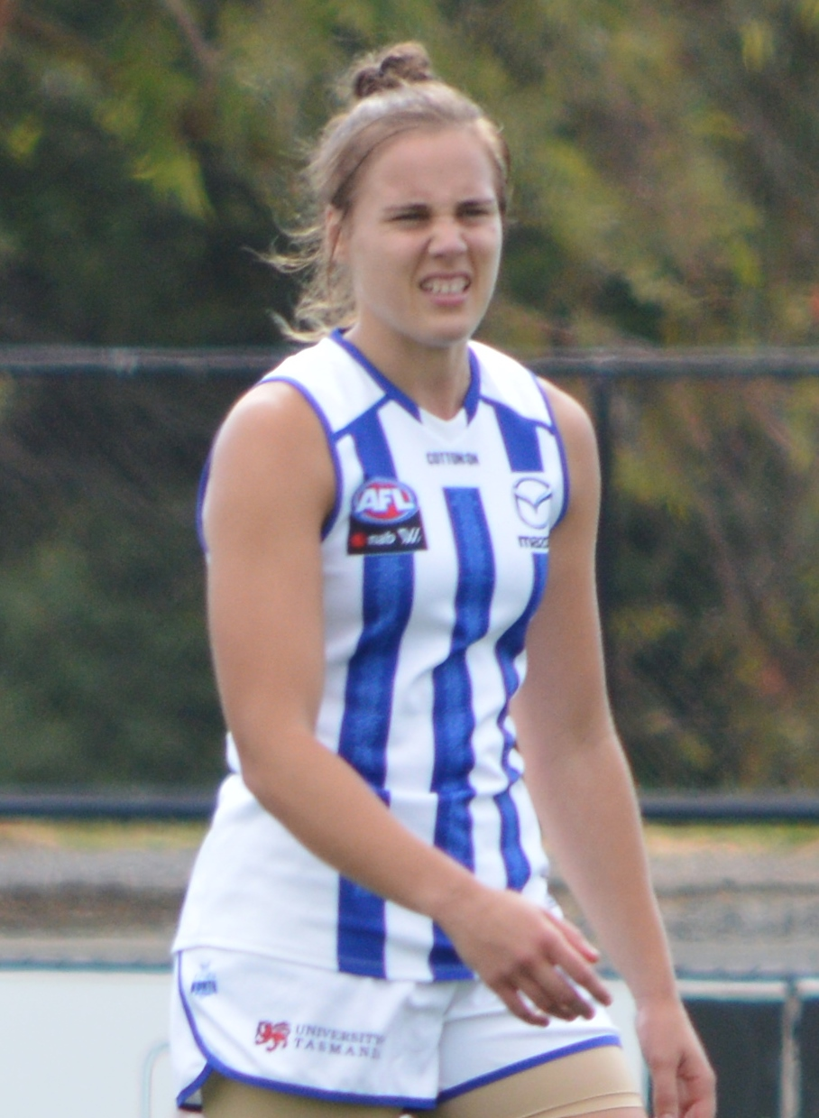 Jasmine Garner with North Melbourne during an AFLW practice match against Melbourne at Casey Fields in January 2019.